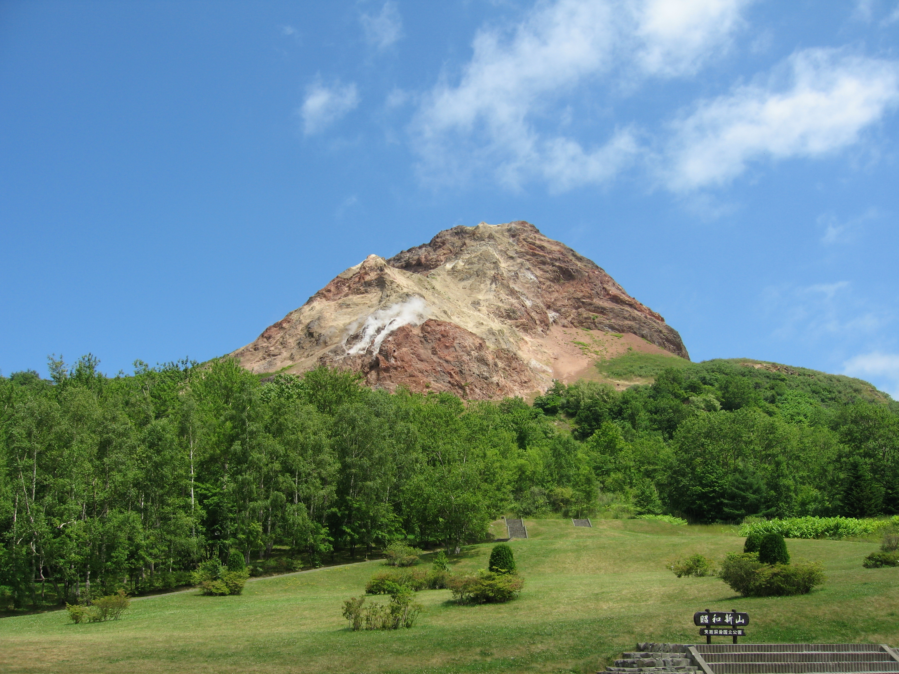 Showa Shinzan, a small young volcano next to Uzusan (Mount Uzu) in Hokkaido, Japan